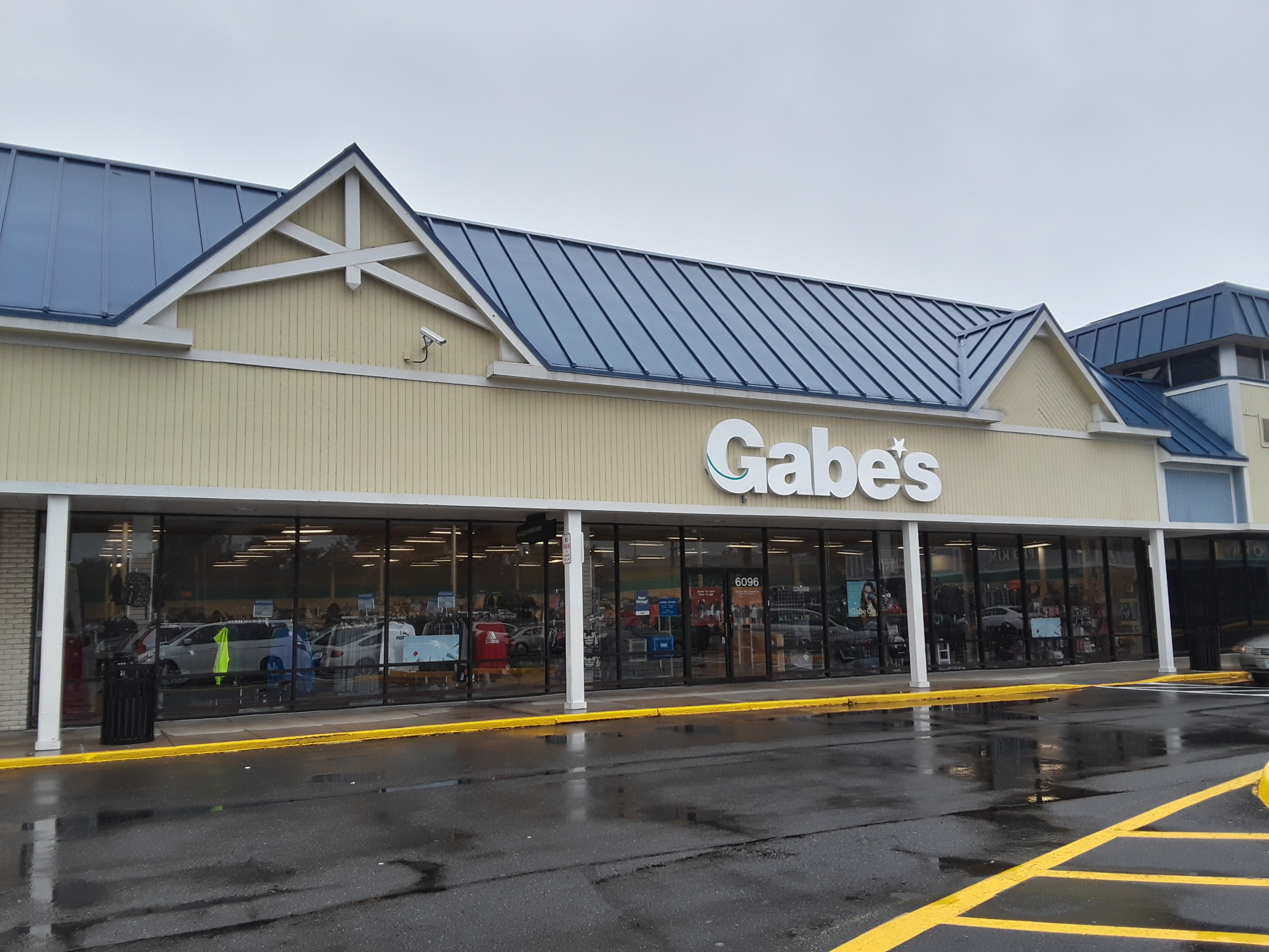 Gabe's, Rose Hill, Fairfax County, Virginia